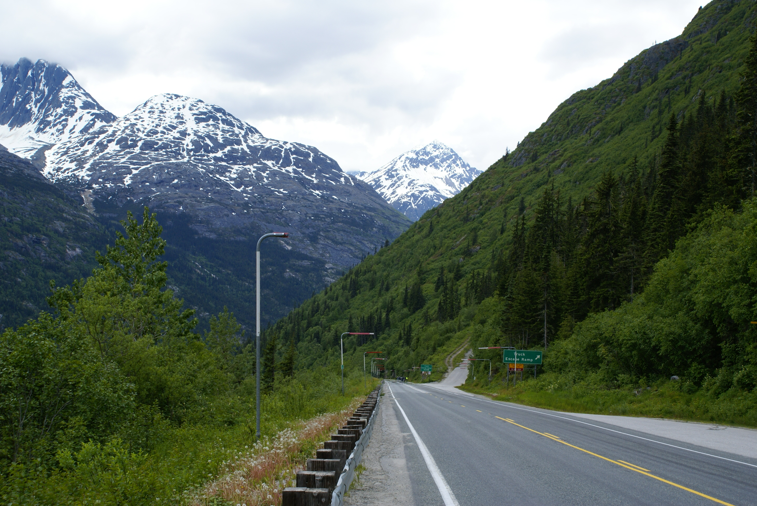 The Klodike Highway